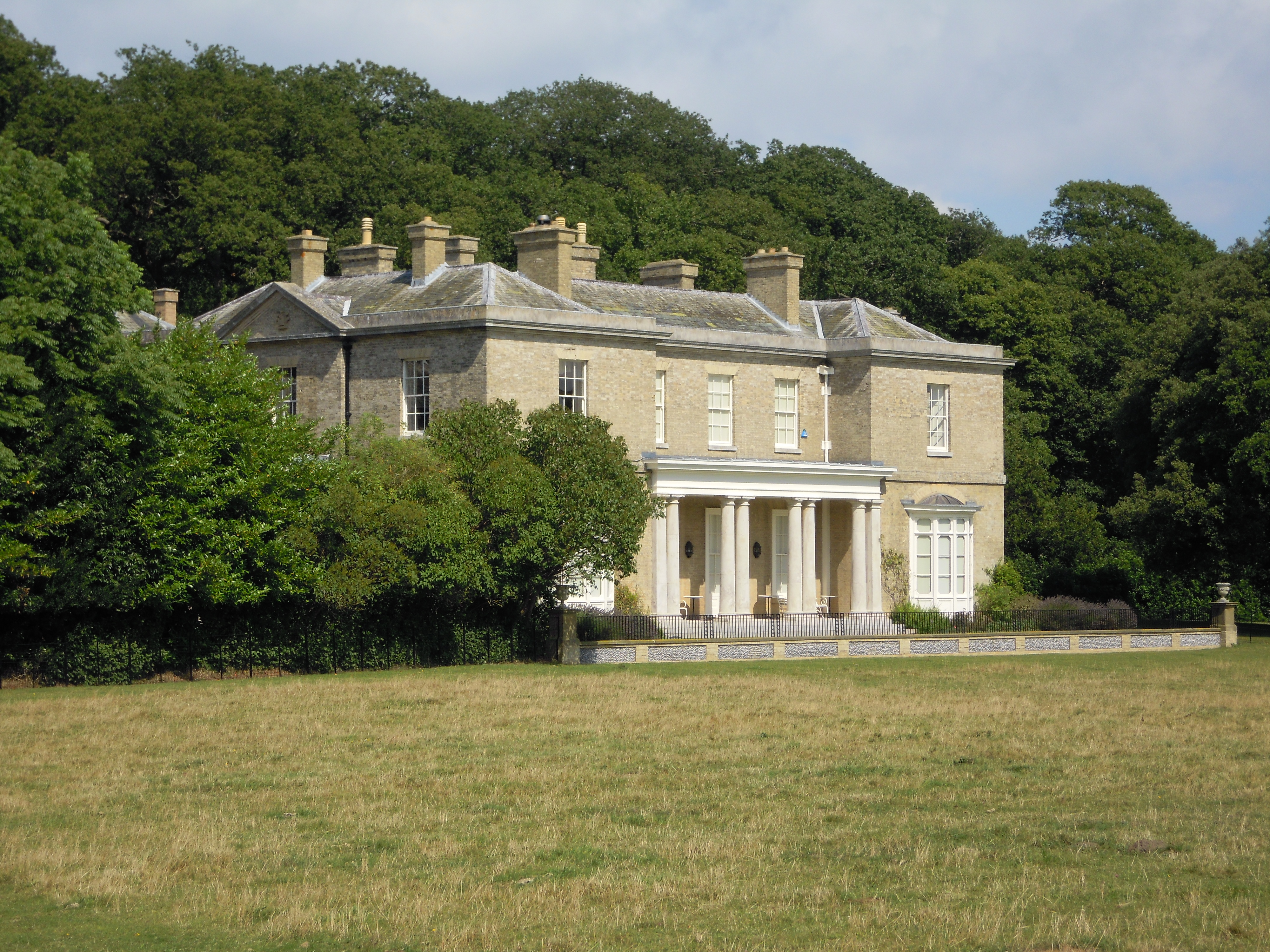 The southern elevation of Sheringham Hall, Sheringham Park, Norfolk.